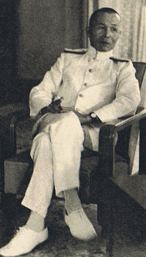 Vice Admiral Jisaburō Ozawa as Commander-in-Chief of the Southern Expeditionary Fleet, 16 November 1941, at Saigon.